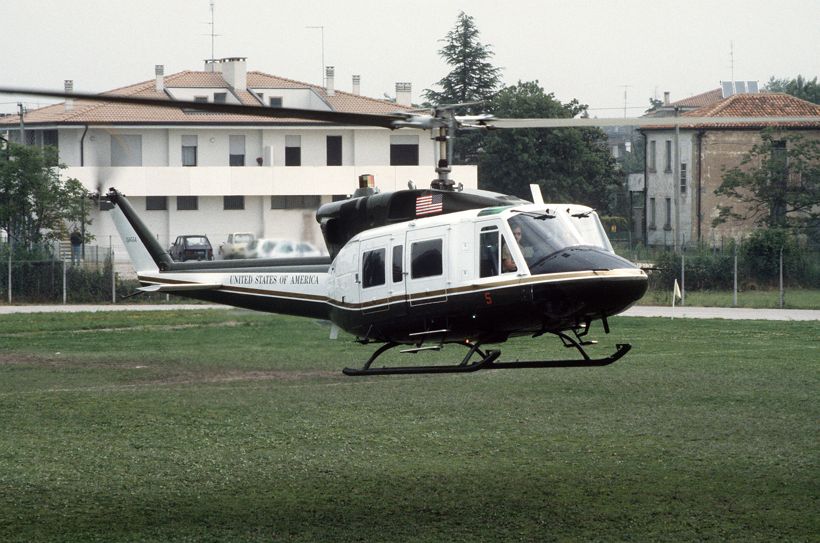 A U.S. Marine Corps Bell VH-1N Huey helicopter (BuNo 158554) from Marine Helicopter Squadron 1 (HMX-1) in northern Italy on 28 May 1987. The helicopter was used by the U.S. President Ronald Reagan during the 13th G7 summit at Venice, Italy between 8 and 10 June 1987.